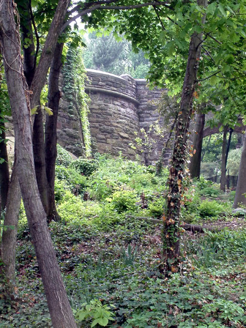 Fort Tyron Park, New York City